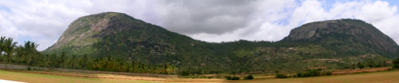 Panorama of the Nandi hills, Bangalore, India